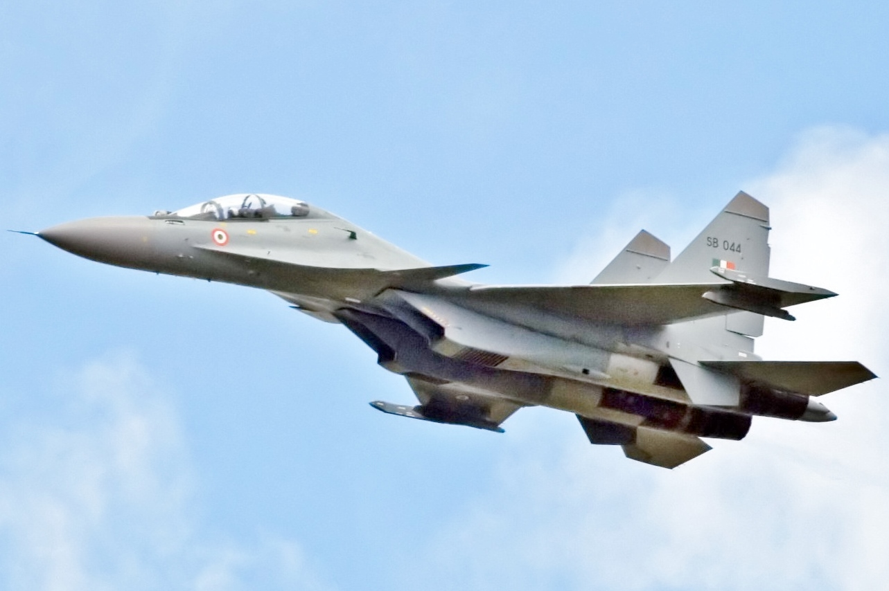 The Sukhoi Su-30 MKI (NATO reporting name Flanker-H) heavy class, long-range, multi-role, air superiority fighter and strike fighter, in Indian Air Force insignia.